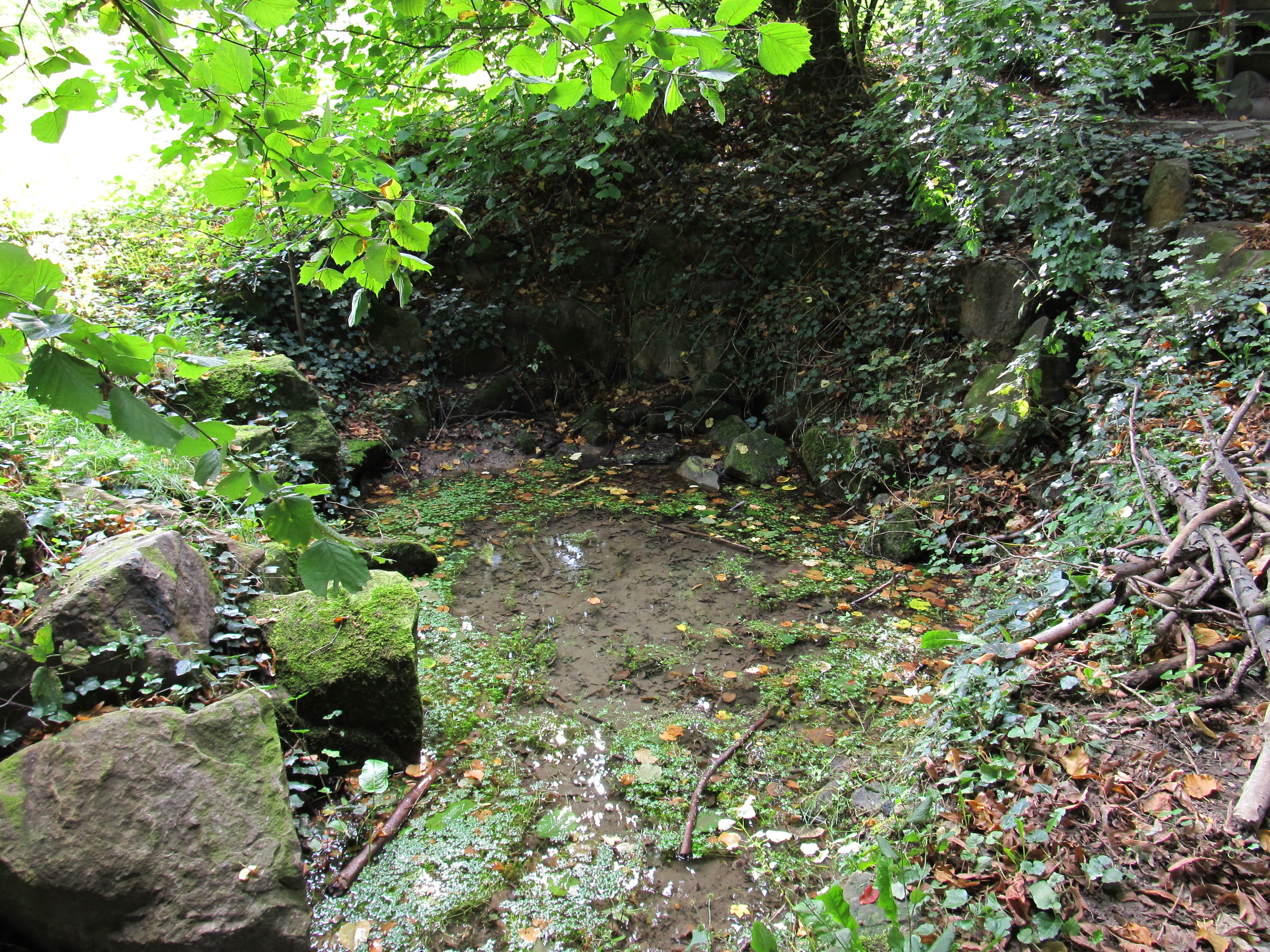 Teutoburg Forest: River Hase - river head, near hill Hankenüll